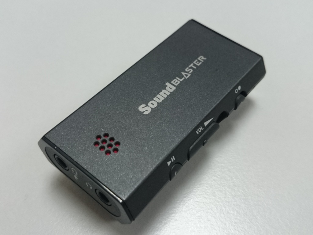 Image of Sound Blaster E1, USB audio device.